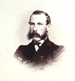 David Sharp in 1869 from a Carte de visite in archives of the Senckenberg Deutsches Entomologisches Institut